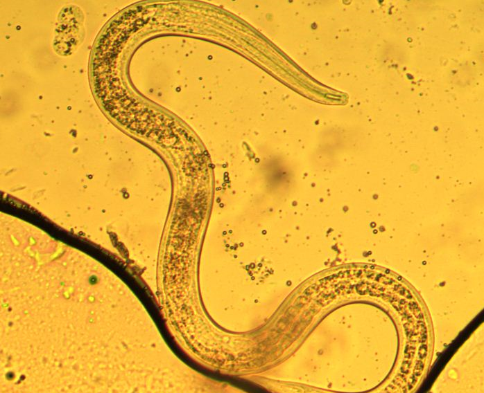 Third stage dauer parasitic rhabditic nematode Phasmarhabditis hermaphrodita.